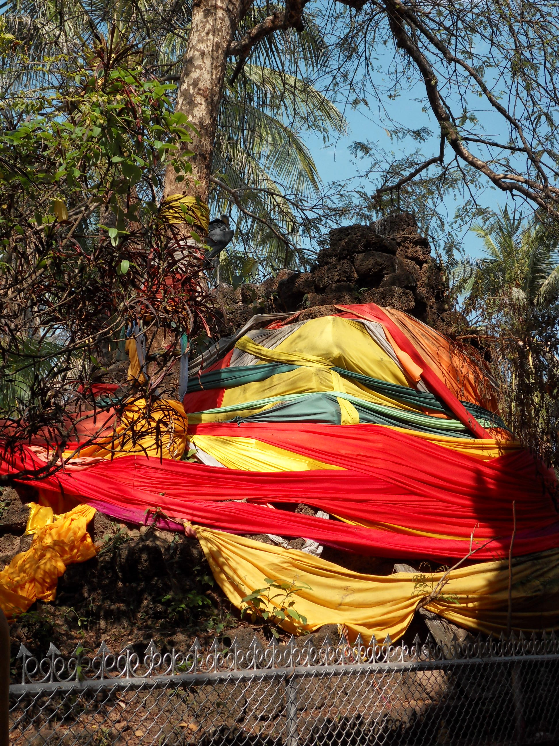 Stupa (?) behind Wat Simuang